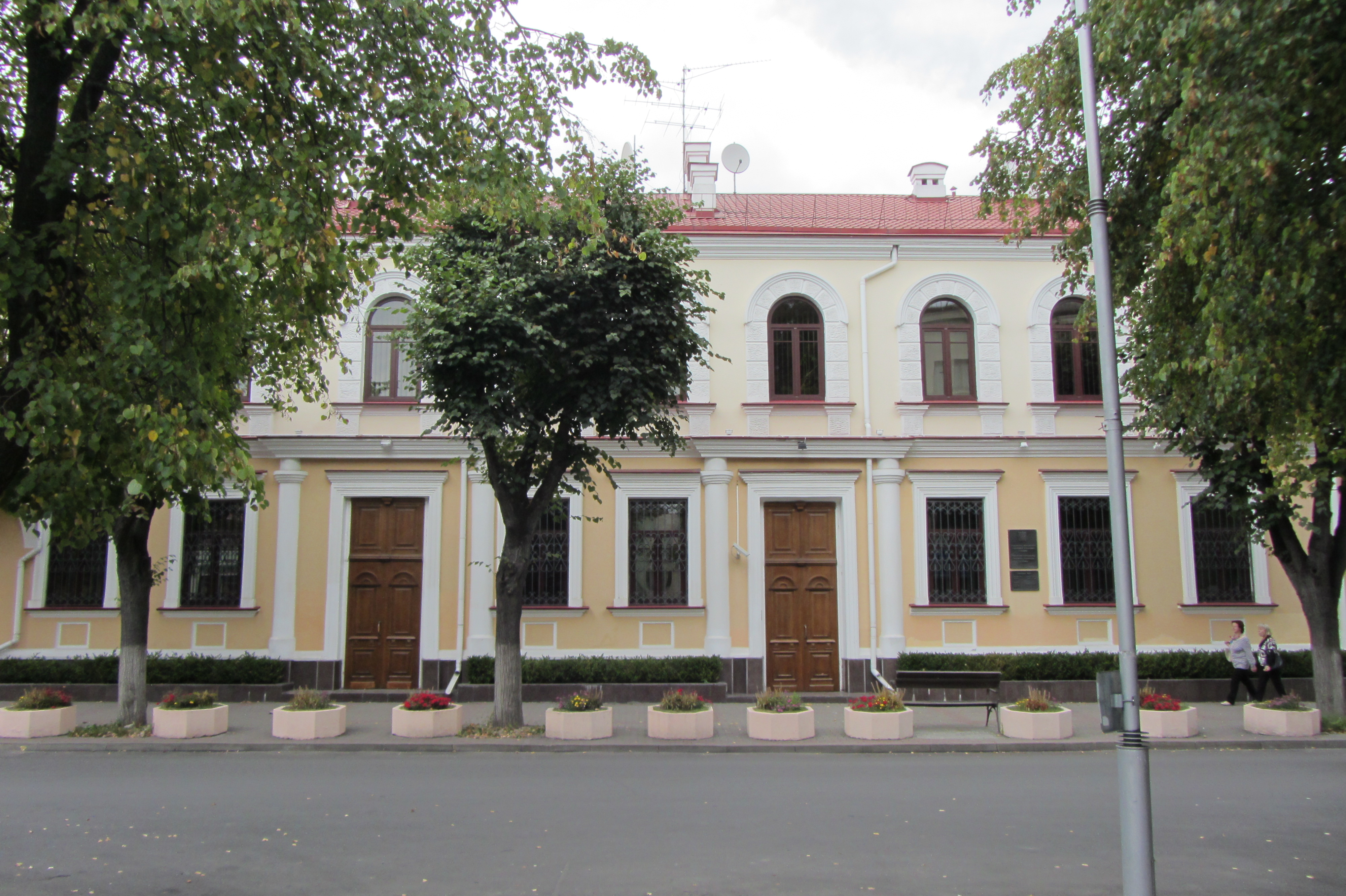 Беларуская (тарашкевіца): Будынак. г. Берасьце This is a photo of Belarusian heritage monument. Reference number: 112Г000020 ( WLM)